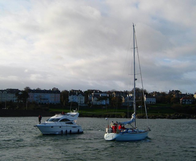 2 pleasure boats off Bangor A motor cruiser is approaching the harbour as a yacht leaves.